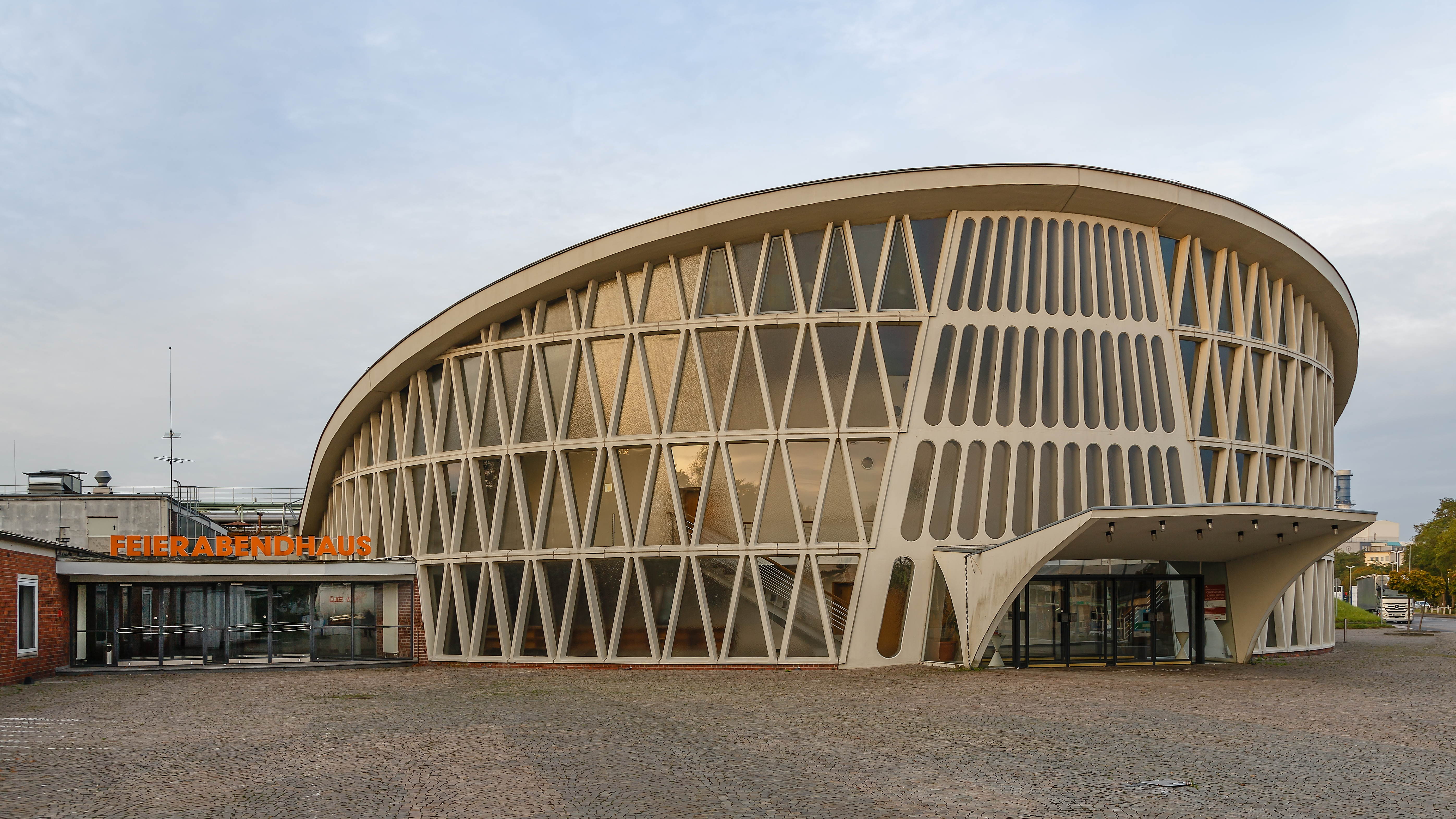 Hürth-Knapsack, Germany: Feierabendhaus